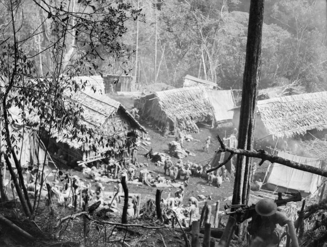 Eora Village, New Guinea, 27 August 1942. At the time, Australian and Japanese forces were fighting to the north around Isurava. In the days that would follow, further fighting took place around the village at Eora, and then further south around Templeton's Crossing